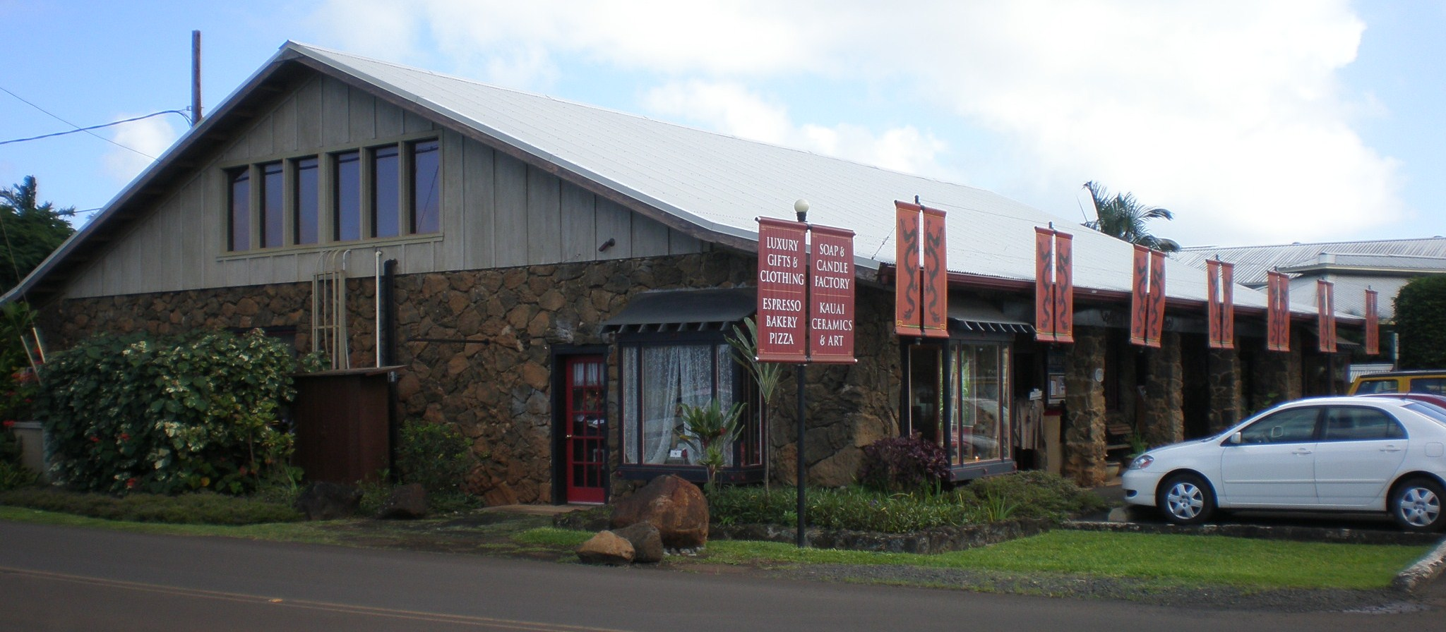 Kong Lung Store of the Kilauea Plantation, 2484 Keneke Street, Kilauea, Kauaʻi, Hawaii, on National Register of Historic Places, originally built to be the plantation store